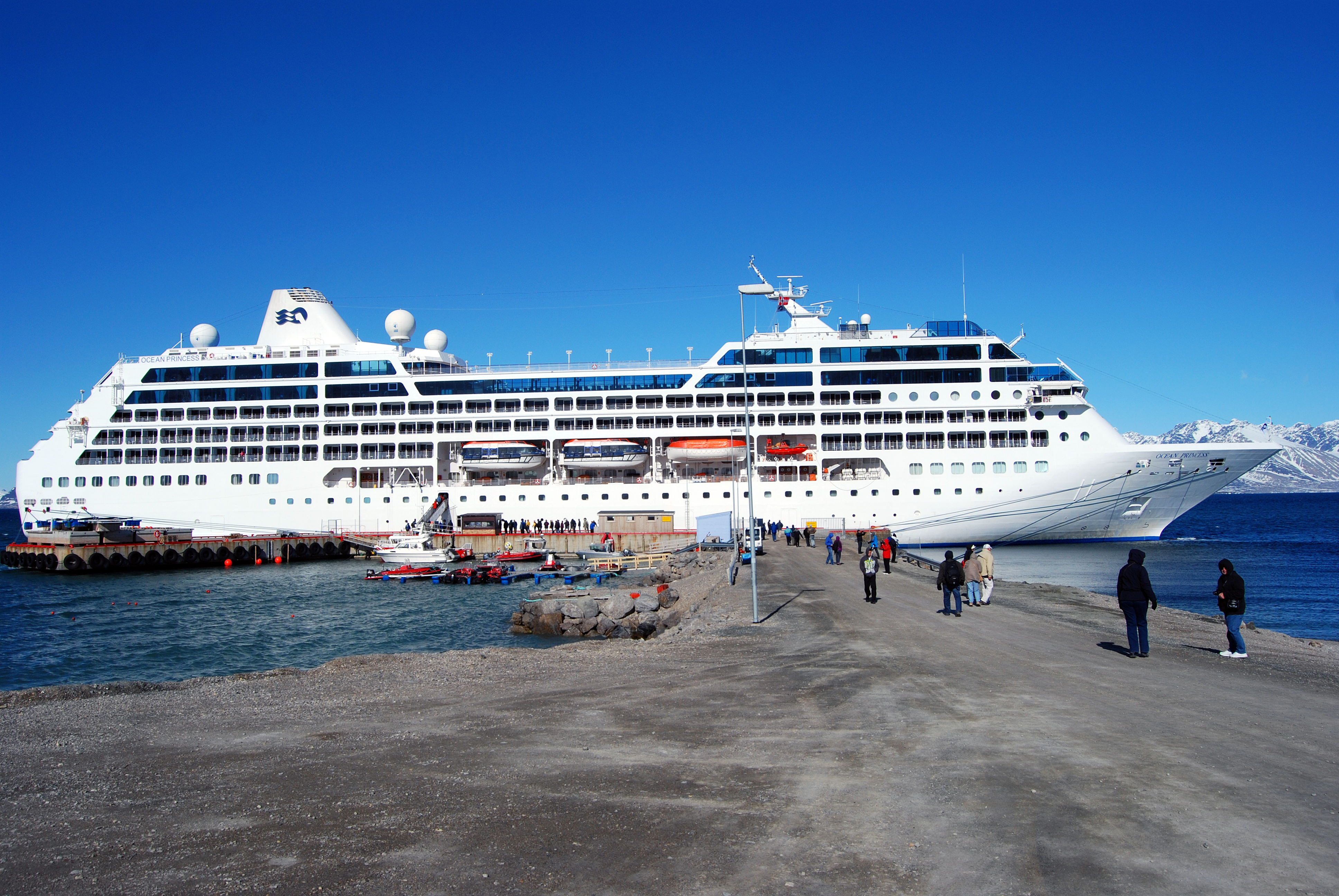 Ny-Ålesund is one of the four permanent settlements on the island of Spitsbergen in the Svalbard archipelago. It is one of the world's northernmost functional public settlement at 78°55′N 11°56′E inhabited by a permanent population of approximately 30–35 scientists and support staff